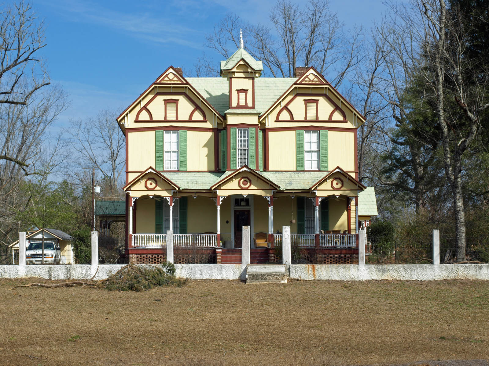 The Walker-Klinner Farmhouse in Chilton County, Alabama, listed on the National Register of Historic Places